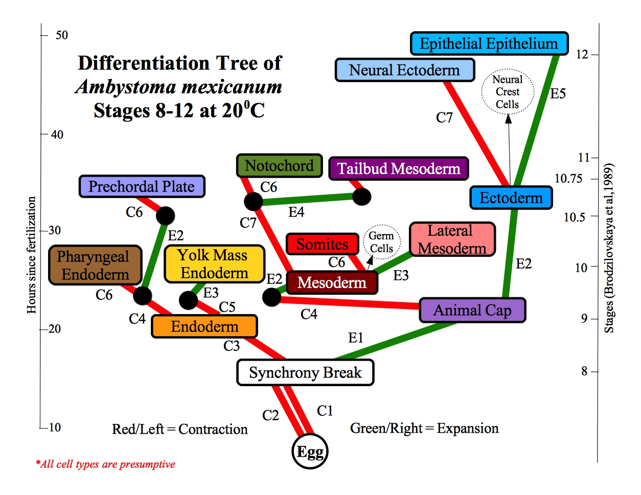 This axolotl differentiation tree indicates tissues determined from cleavage to the end of gastrulation. All tissues types should be considered “presumptive”. Red, shift to right and the letter C indicate a contraction wave and green, shift to right, and the letter E an expansion wave. Staging numbers hours since fertilization on the left and right are from Bordzilovskaya et al. (1989)7 and indicate the duration of each wave. Note each wave may pass through one tissue and continue into an adjacent tissue and so, for example, E3 begins in endodermal tissue and then continues into mesodermal tissue.